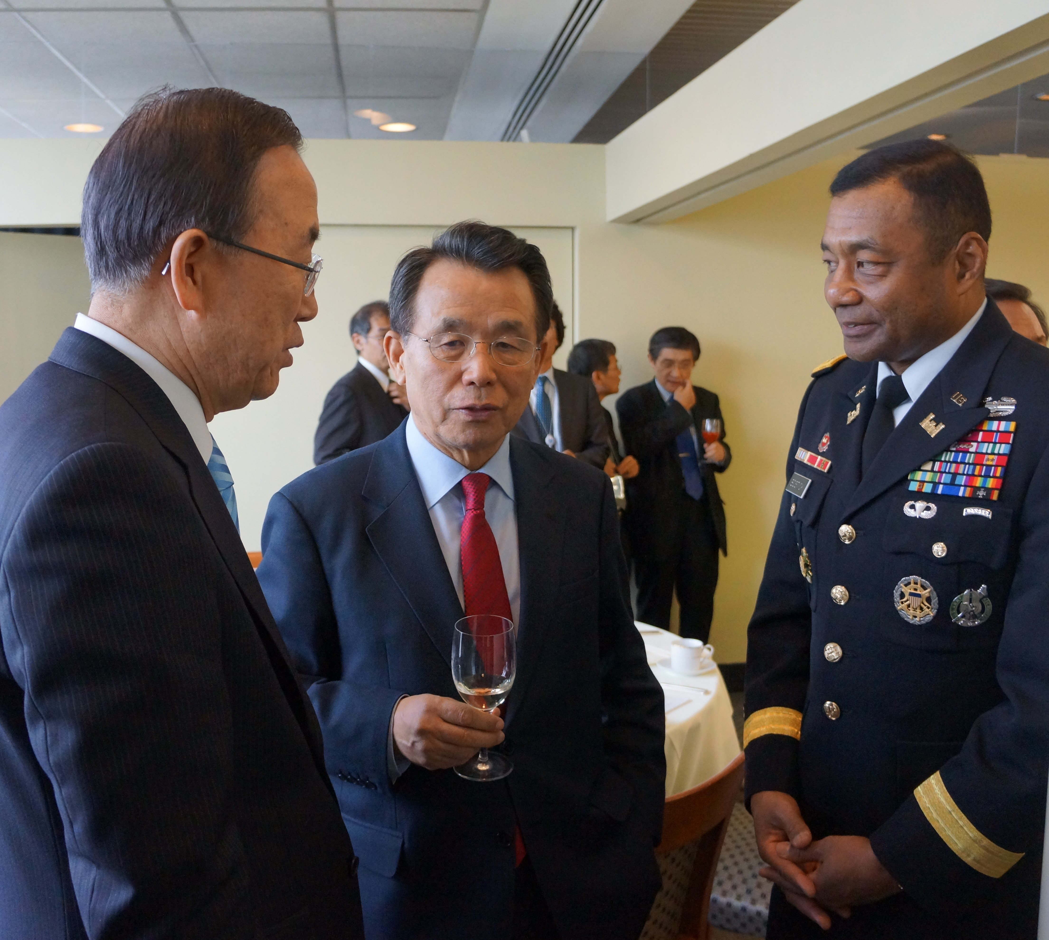 LTG Bostick speaks at UN and meets with UN Secretary-General Ban Ki-Moon and former Korean President, Han Seung-soo